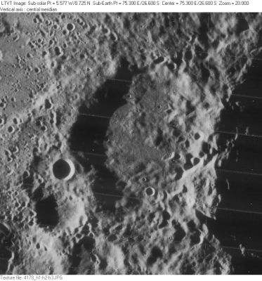 Phillips lunar crater - image LO-IV-178H LTVT